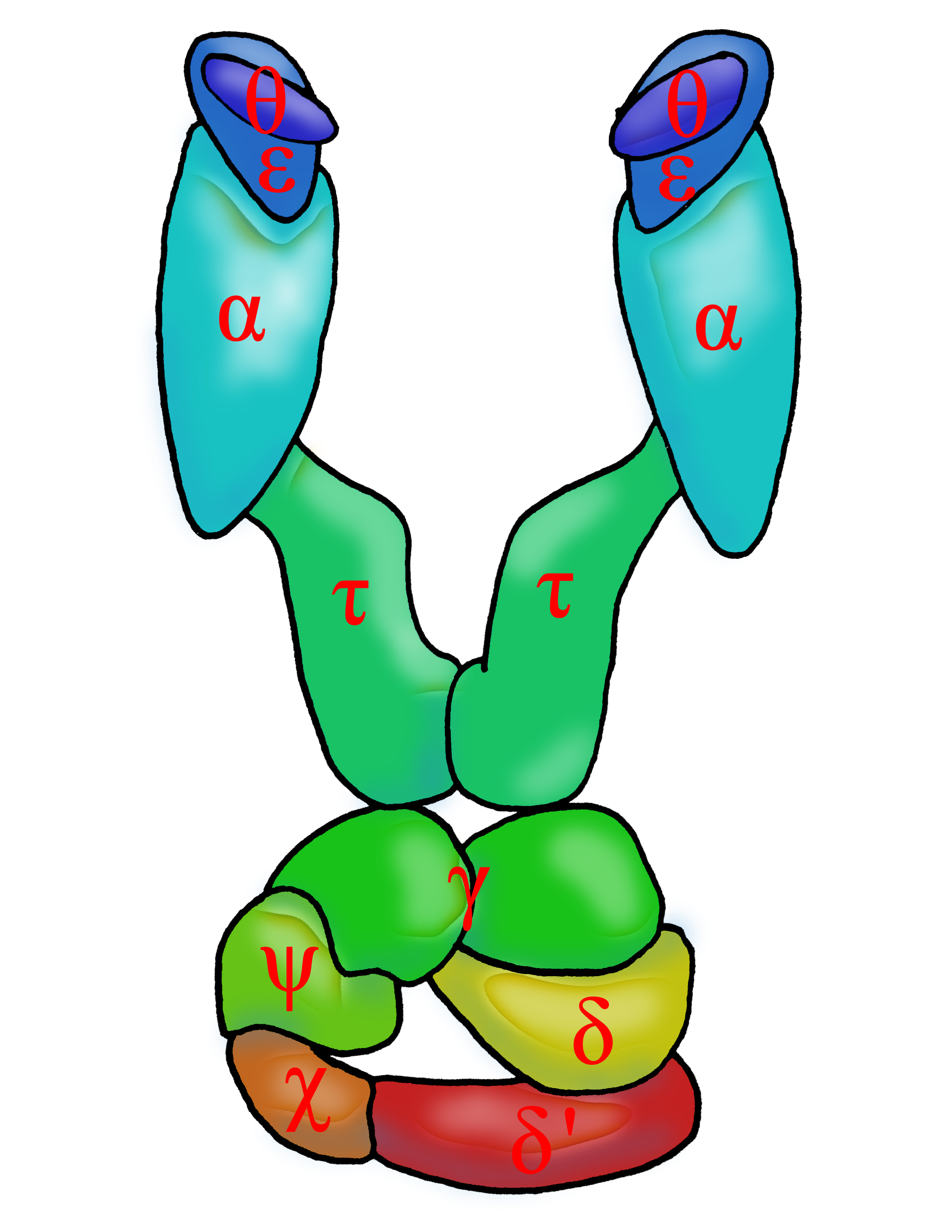 Schematic image of DNA polymerase III